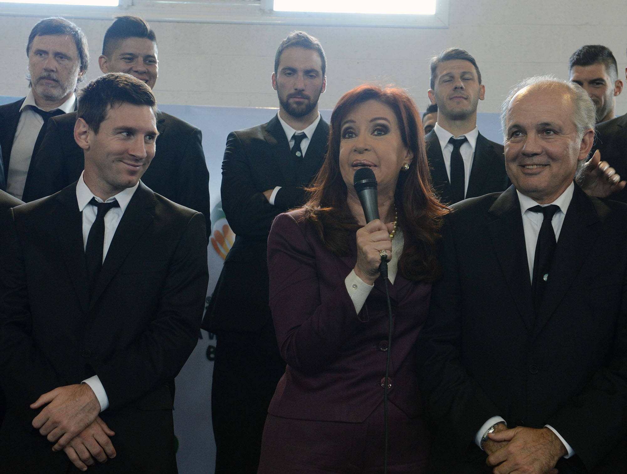 President Cristina Fernandez greets the staff of the Argentina National Team, second in the world Brasil 2014, staff and leaders of AFA.